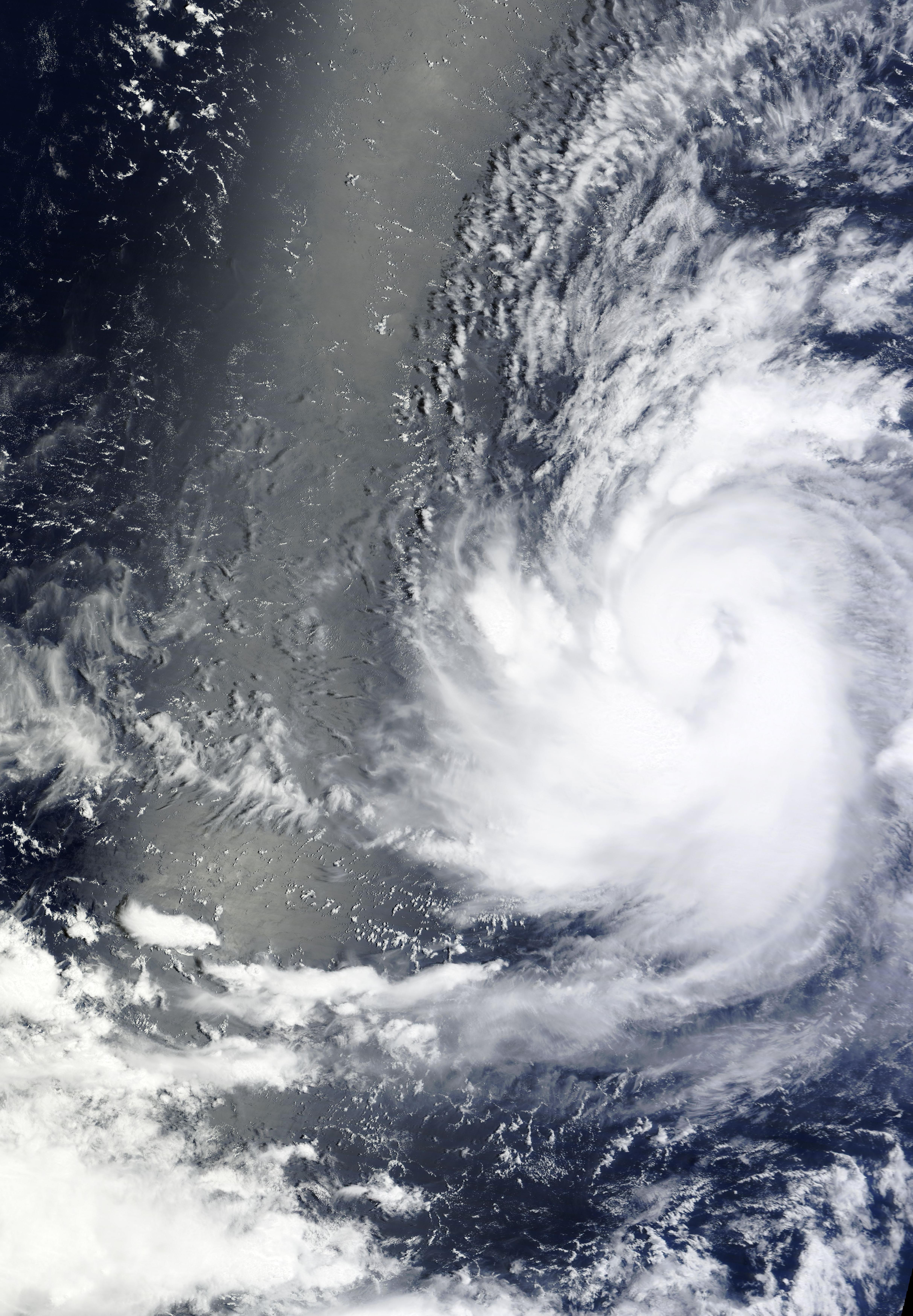 Severe Tropical Storm Goni on August 16, 2015